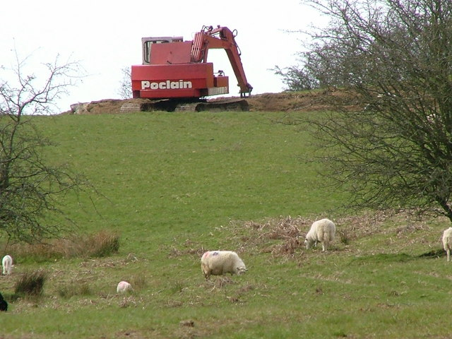 Tracked Poclain excavator and sheep